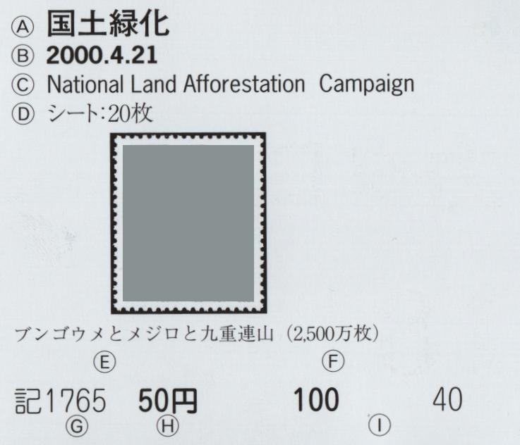 The cover top of the JSDA 2018 (2017.7.15)